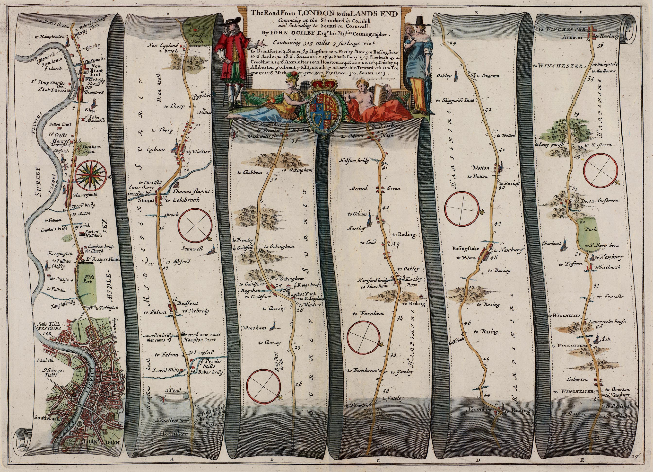 The Road From LONDON to the LANDS END Comencing at the Standard in Cornhill and Extending to Senan in Cornwall